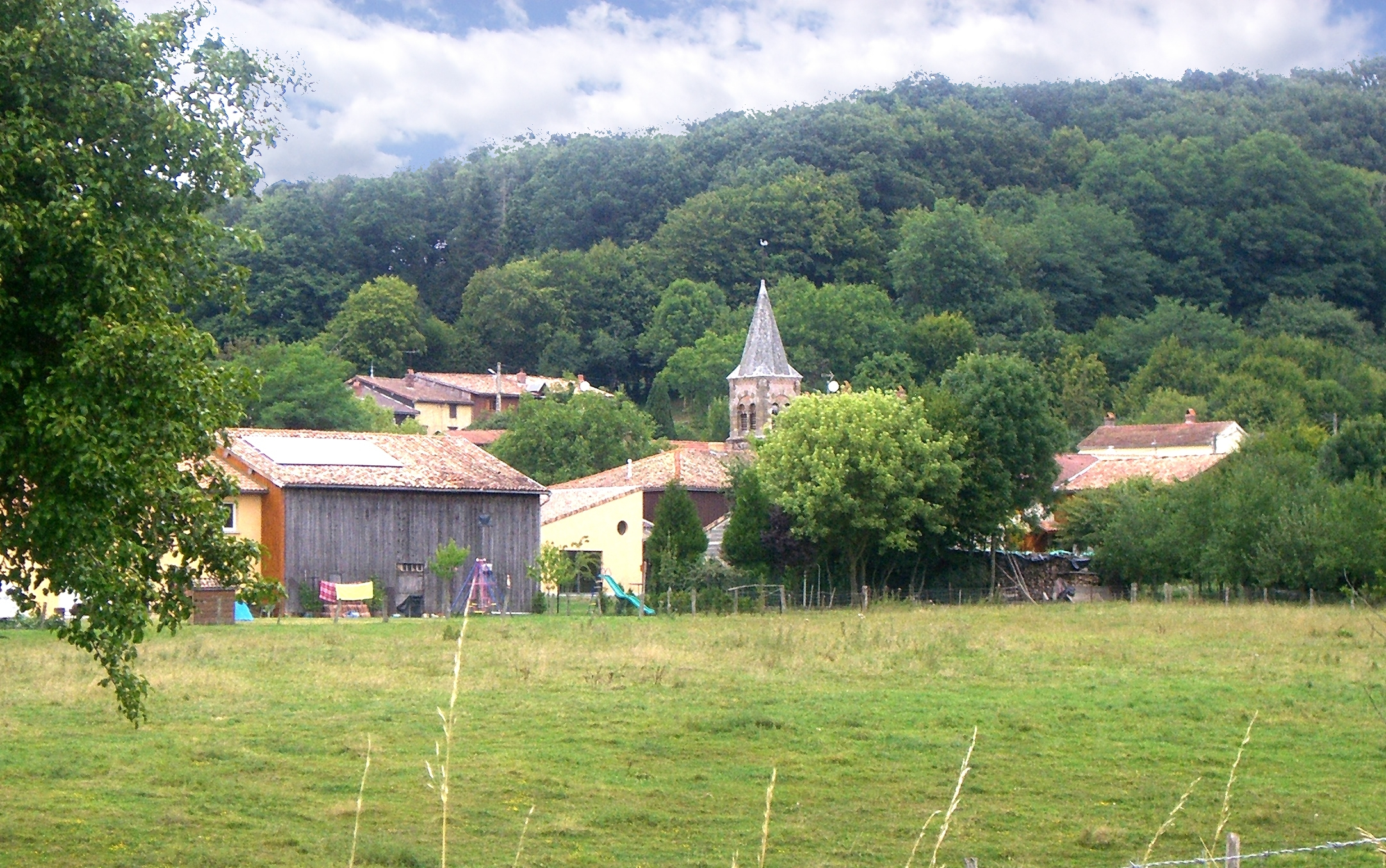 Le Neufour is a small village situated on the border of the Argonne forest in the French department of Meuse in the region of Lorraine. Unknown